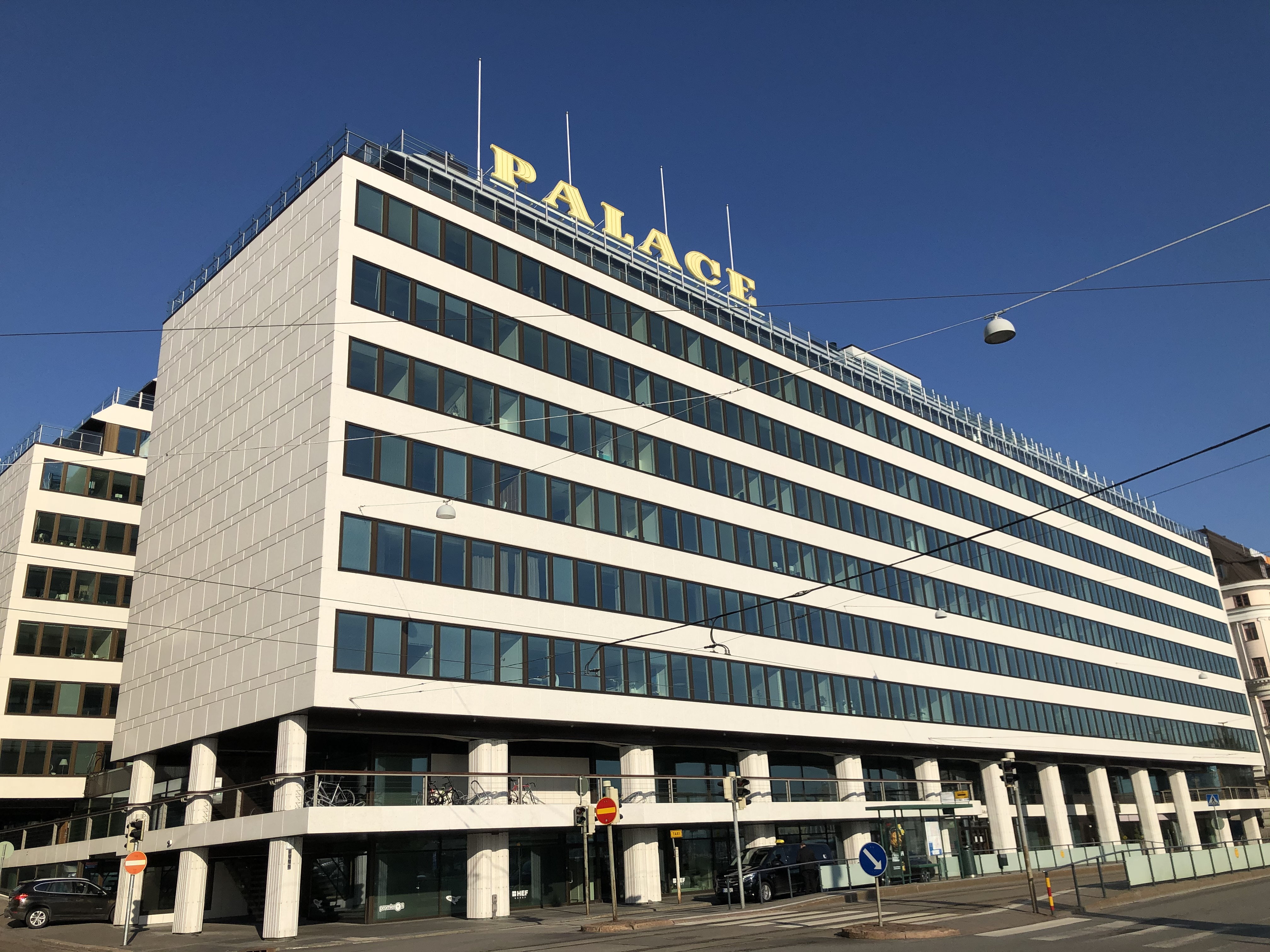 Teollisuuskeskus in April 2020.